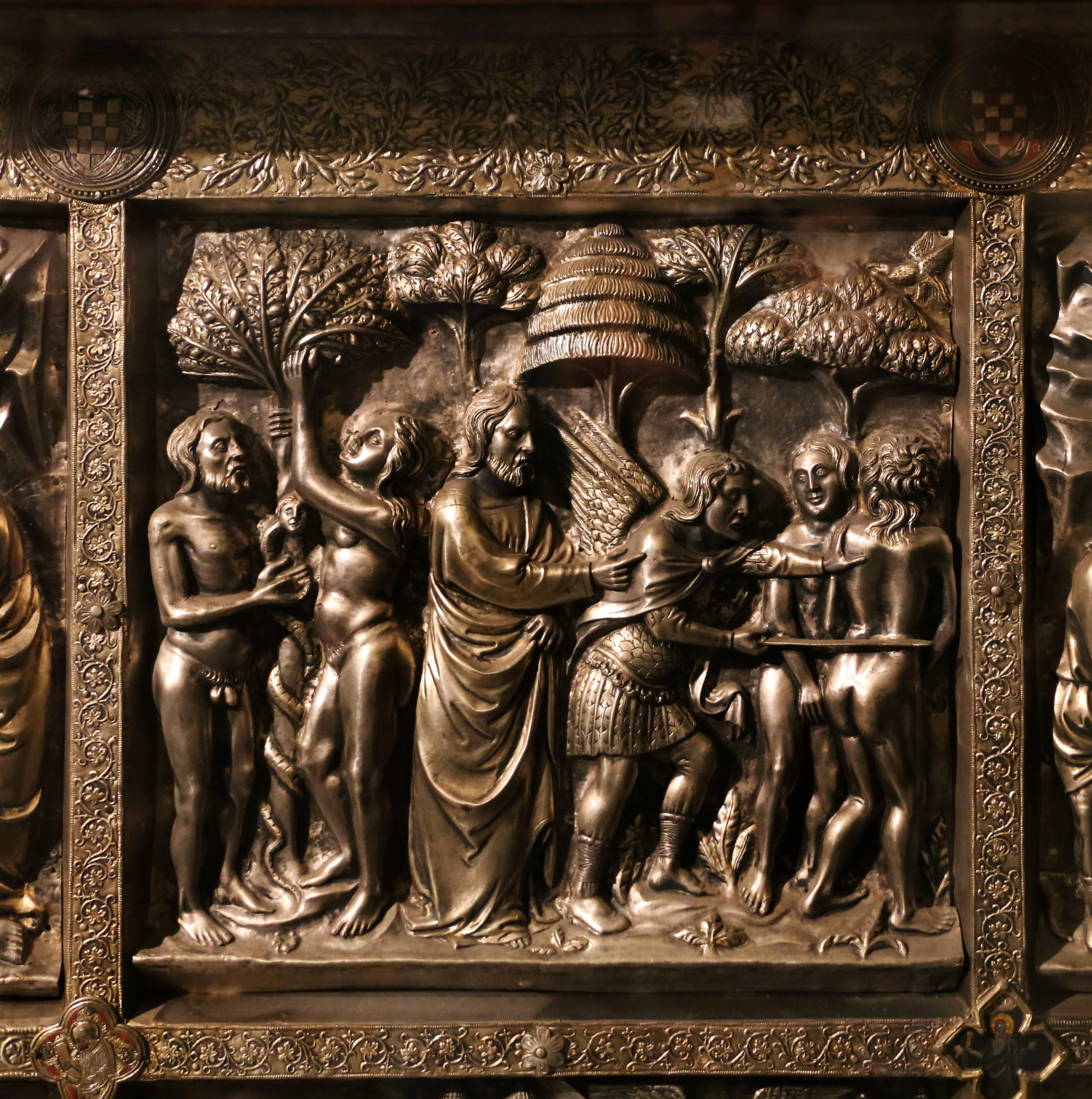 Silver Altar of Saint James